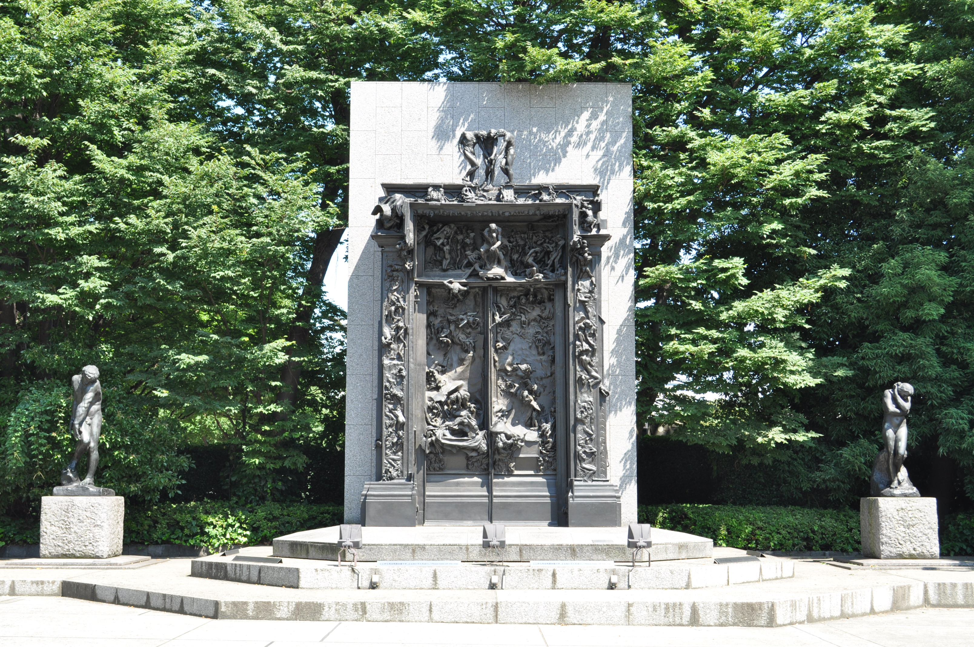 Gates of Hell by Rodin in National Museum of Western Art, Tokyo